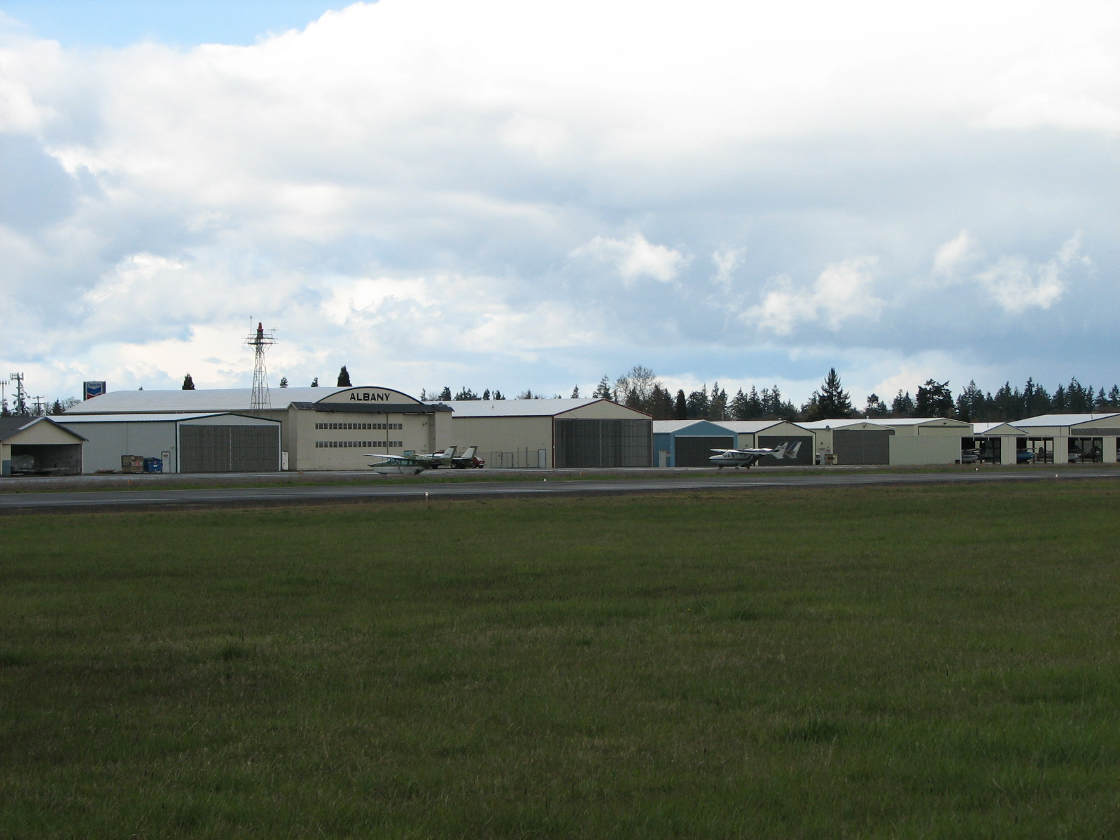 Hangar area at the Albany Municipal Airport in Albany, Oregon, United States. This airport is listed on the US National Register of Historic Places (NRHP) as the Albany Municipal Airport Historic District.